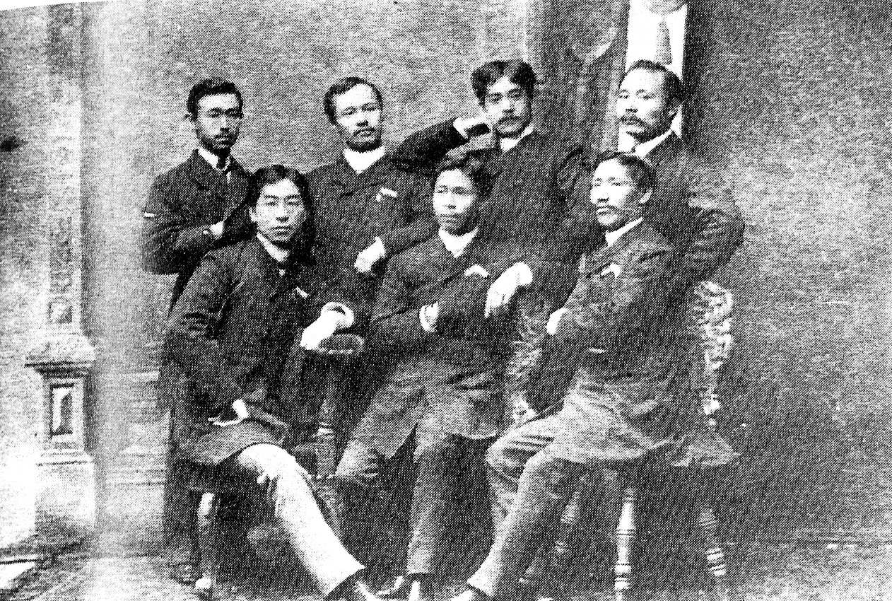 Harada and Mori Ogai at Munich